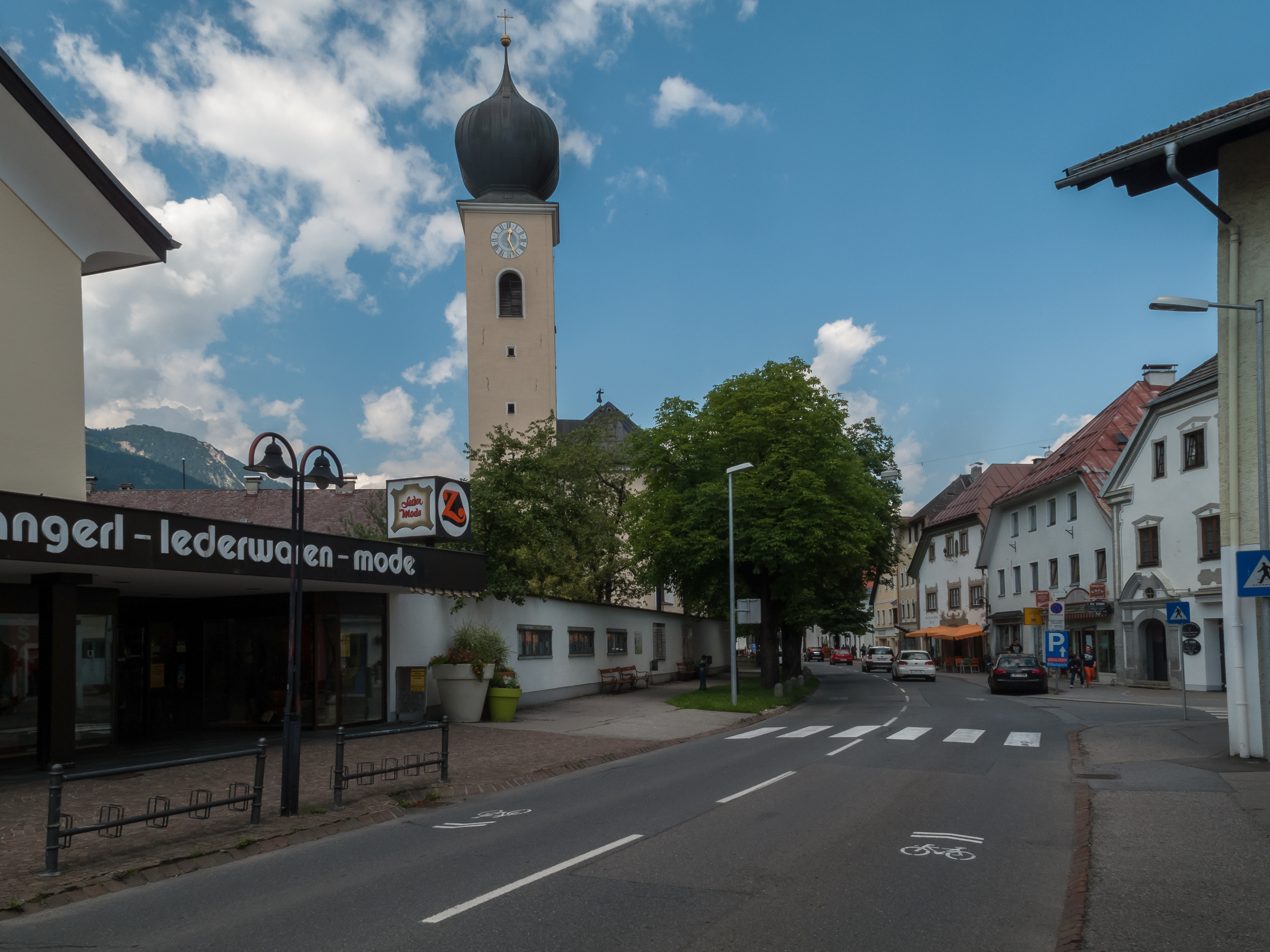 Reutte, Pfarrvikariats- und Franziskanerkirche heilige Anna und Franziskanerkloster in straatzicht